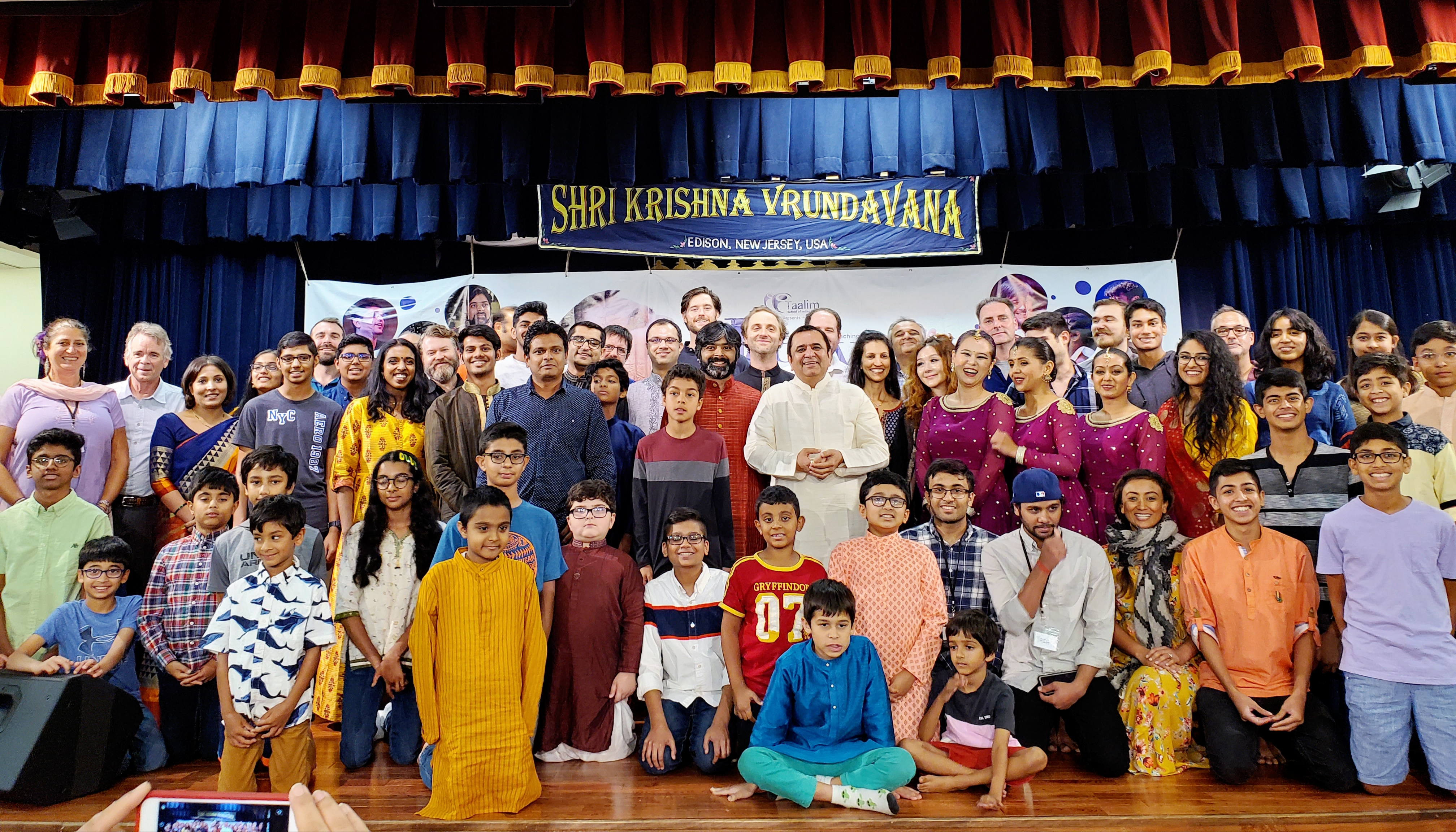 Students of Pandit Divyang Vakil capture the moment with him post Legacy concert in New Jersey, USA